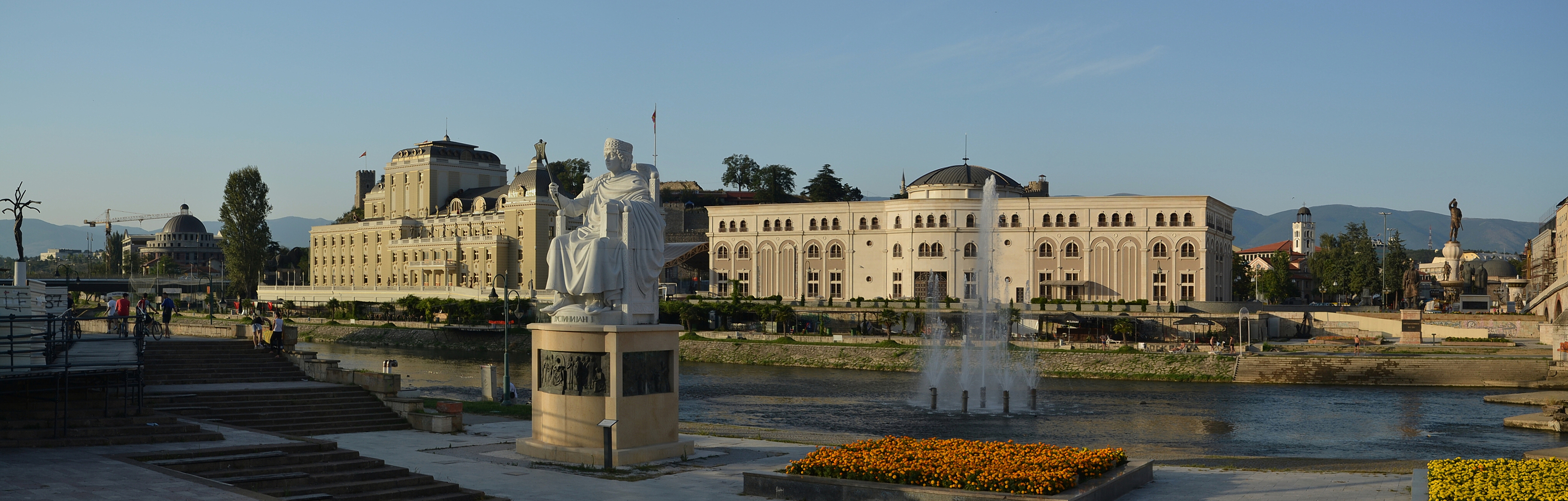 Skopje, Macedonia - Museum of the Macedonian Struggle and National Theatre